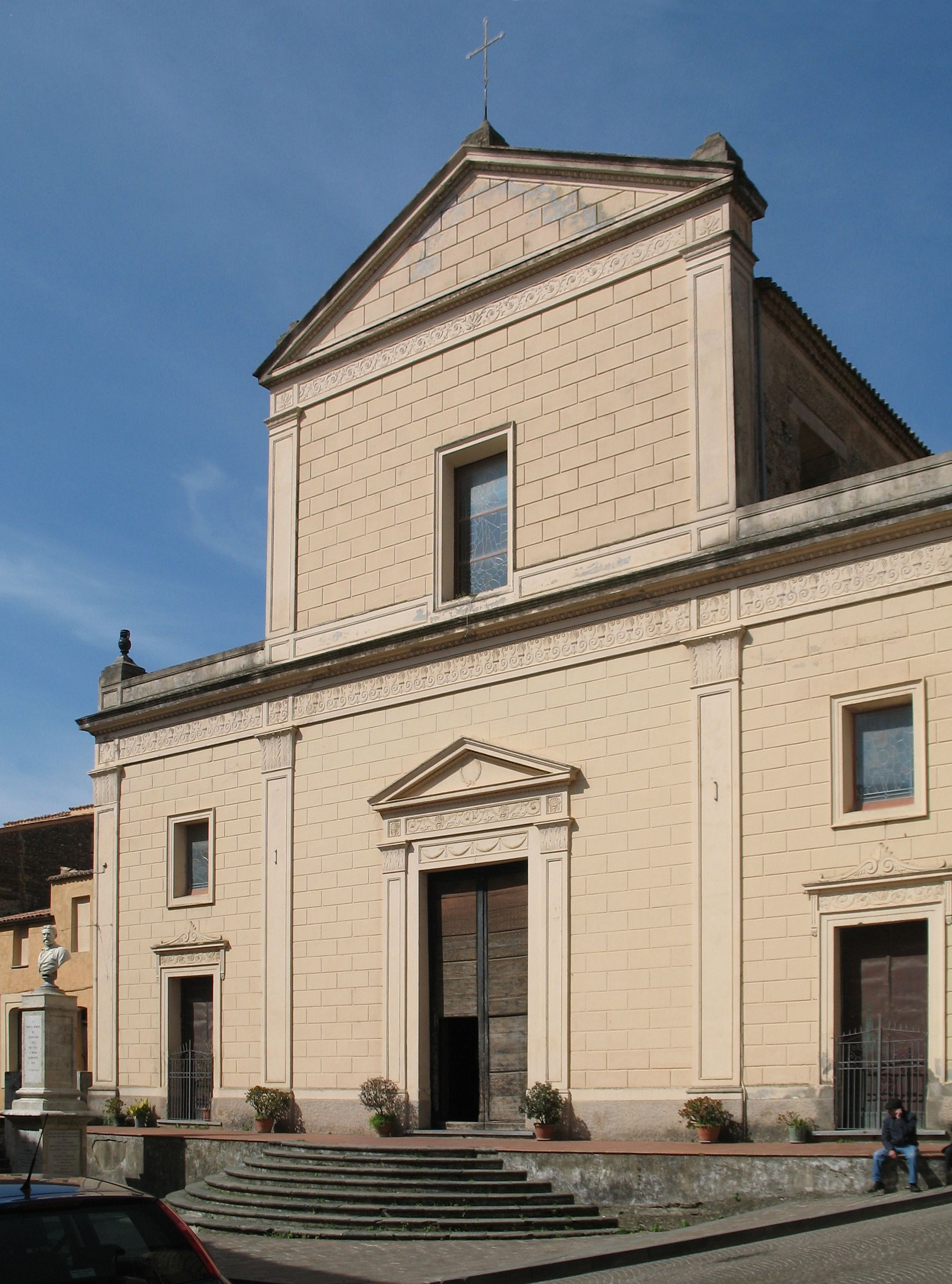 Cattedral Sambiase